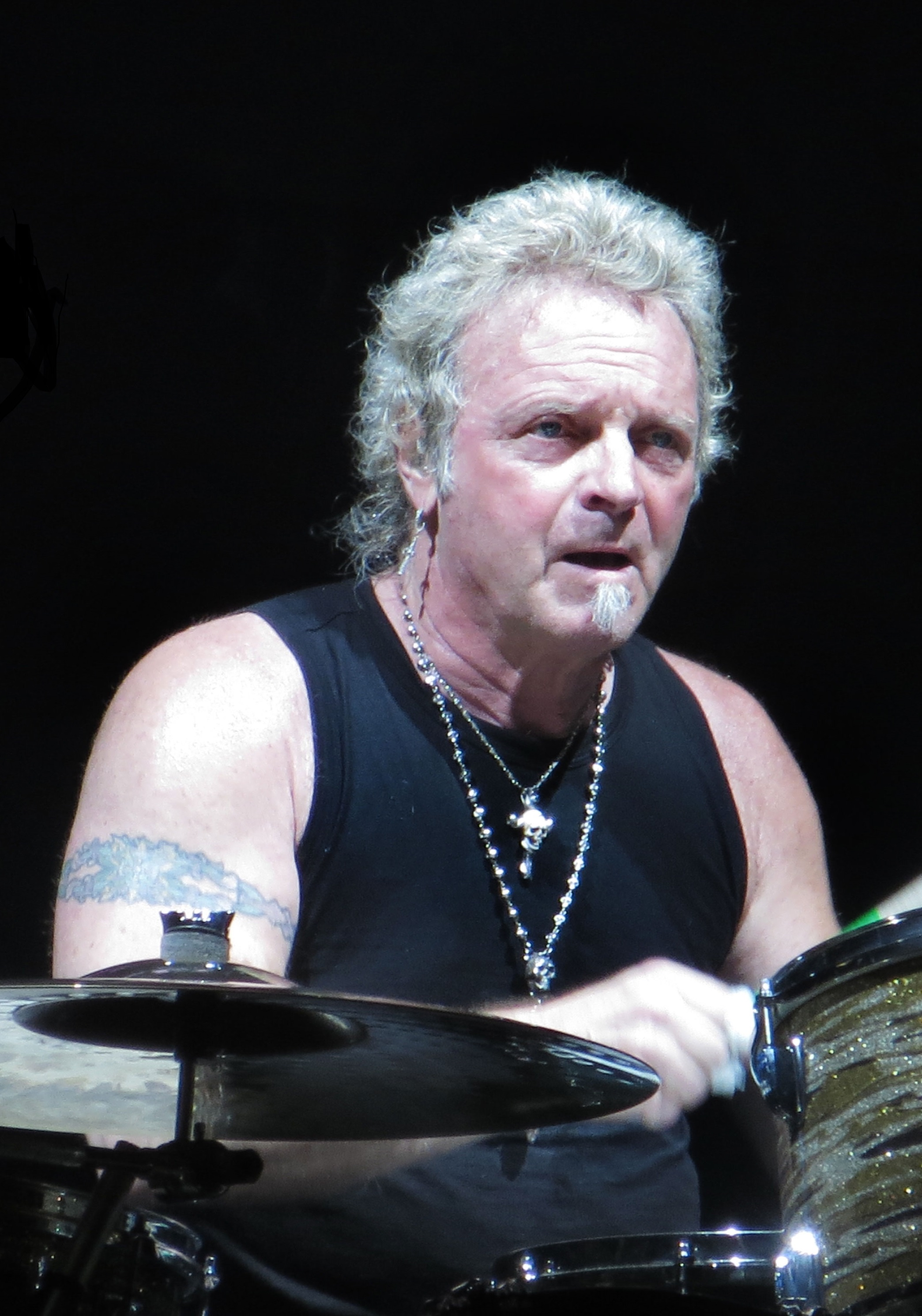 Joey Kramer performing with Aerosmith in Caracas, Venezuela.